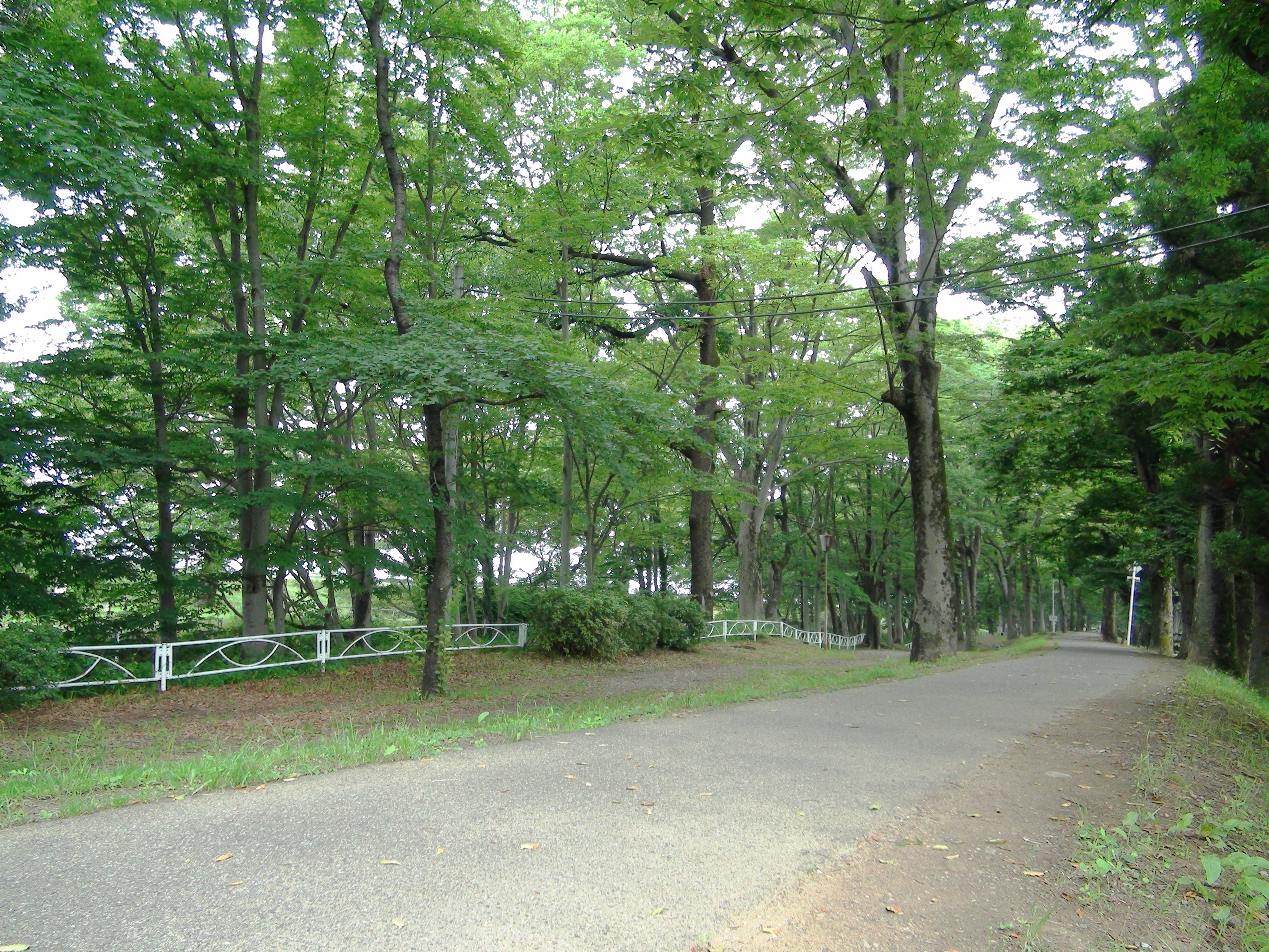 Inside forest of Shingen embankment